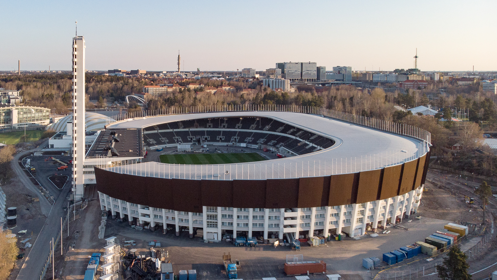 Aerial view of Helsinki Olympic Stadium under renovation with the new Pasila district skyline in the background.